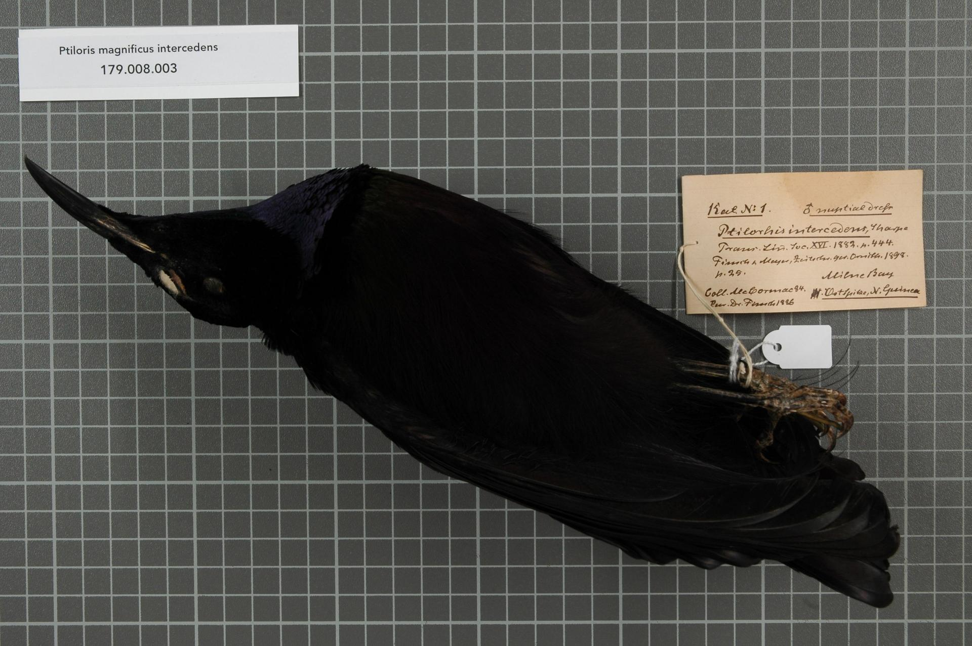 Ptiloris magnificus intercedens Sharpe, 1882